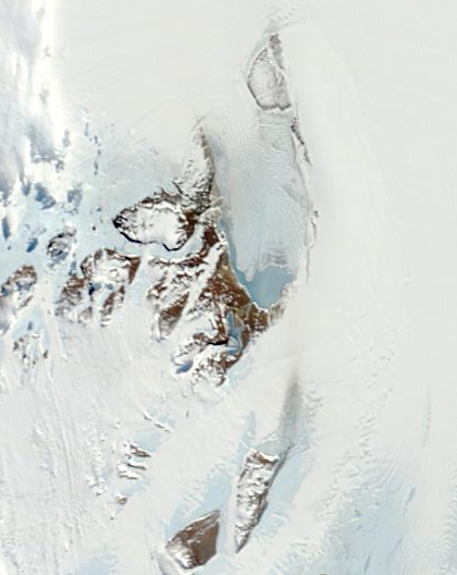 Amery Oasis in Antarctica with visible lakes of different types: epishelf Beaver Lake (center) and meltwater Radok Lake (lower left)